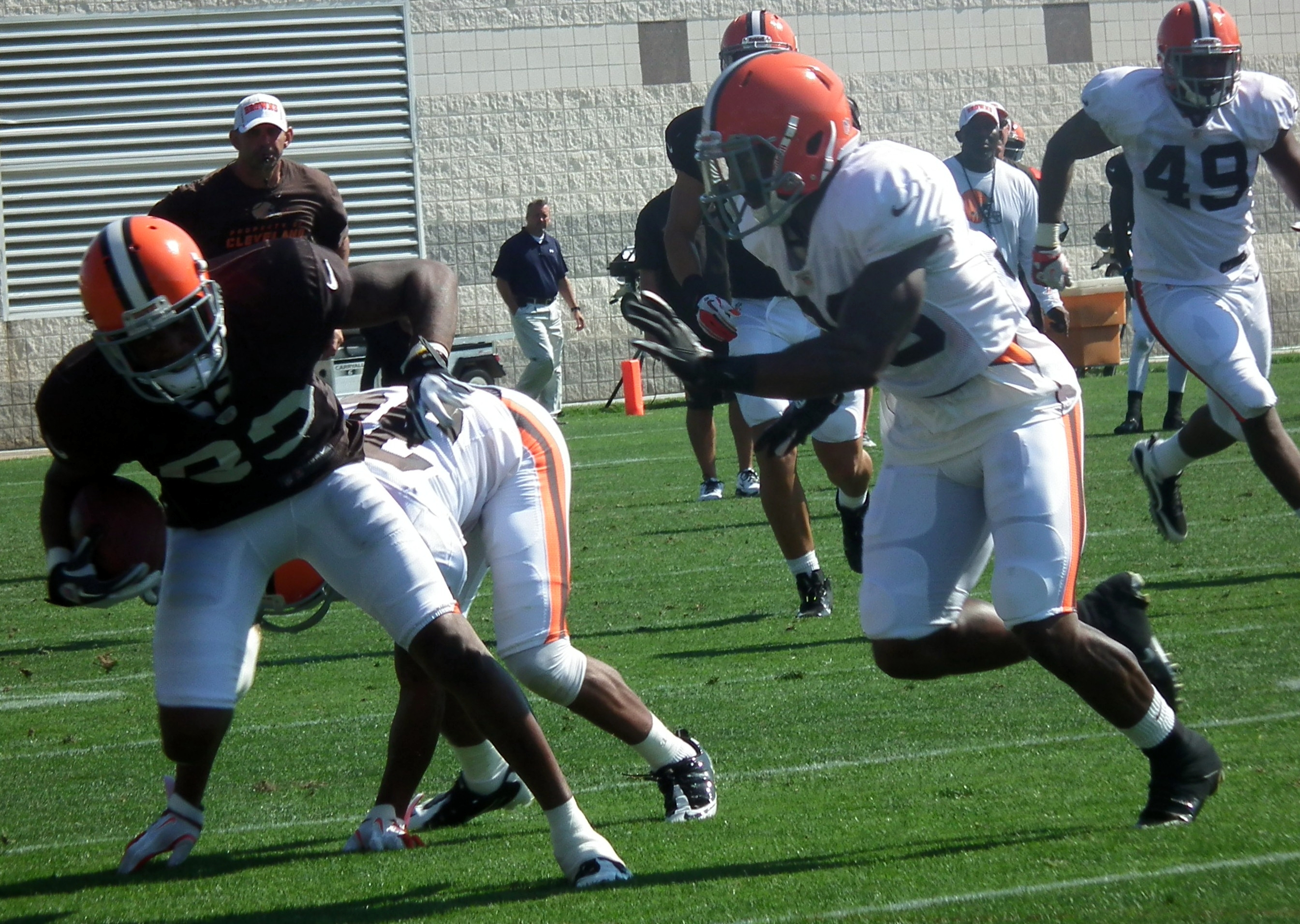 Benjamin Watson of the Cleveland Browns (far left).